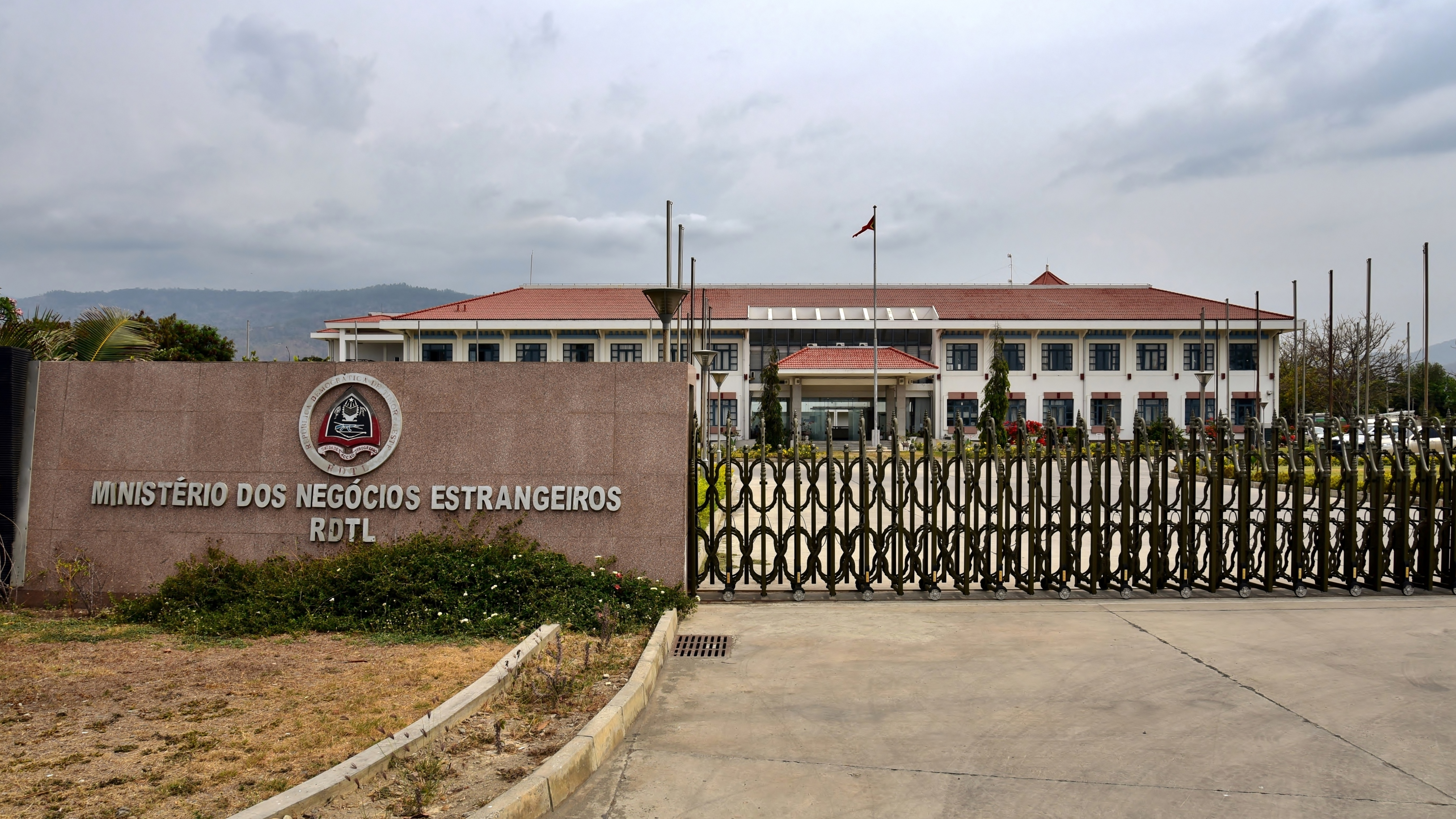 View of the Ministério dos Negócios Estrangeiros (Ministry of Foreign Affairs building), Avenida de Portugal, Dili, East Timor